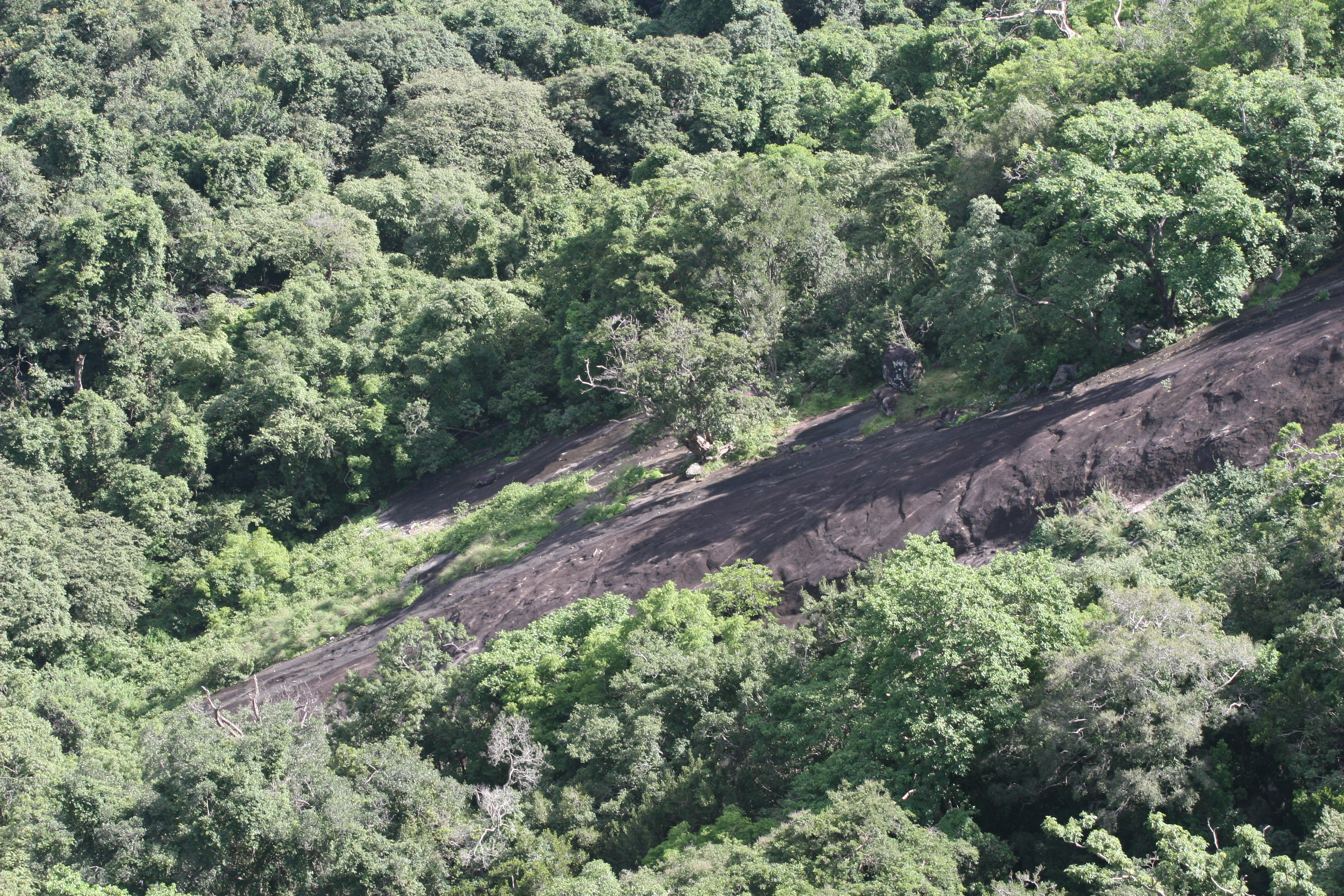 Kaludoya pokuna mountainous rock